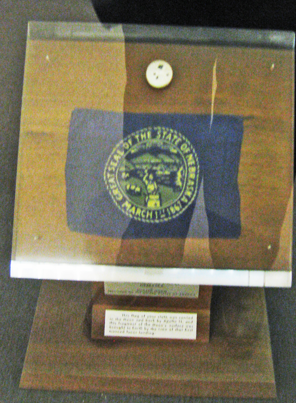 Nebraska Moon Rock Apollo 11 plaque